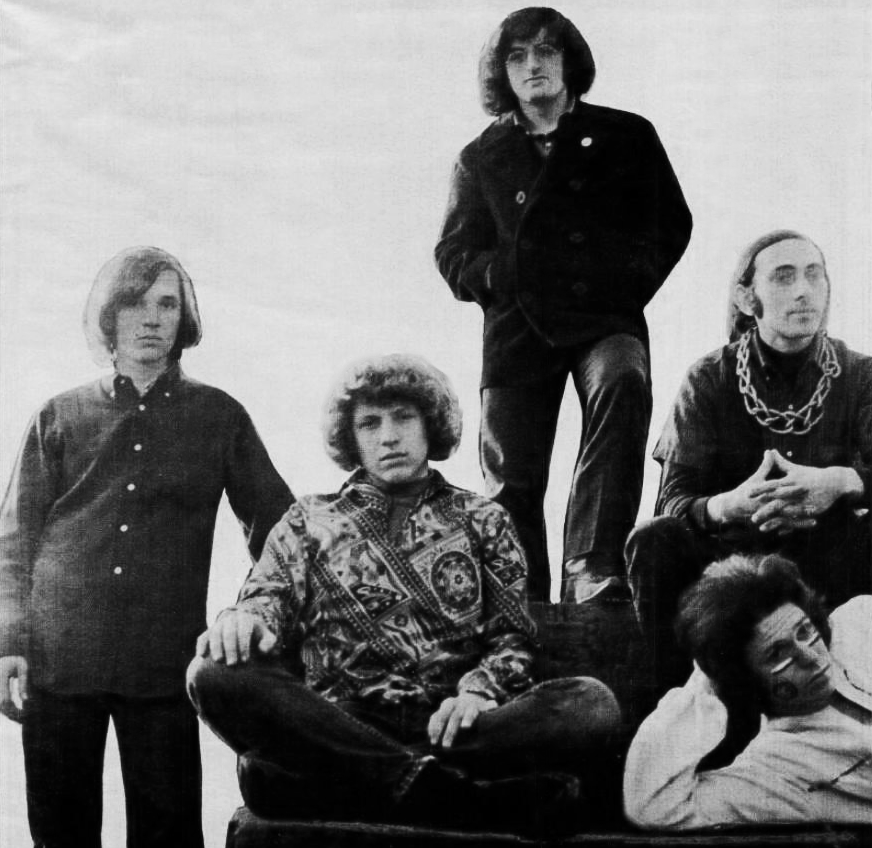 Trade ad for Country Joe and the Fish's single "Not So Sweet Martha Lorraine" / "Masked Marauder".To better adapt it to his respective Wikipedia article, the ad was cropped and cleaned in a graphics editing program. The original can be viewed at the source below.